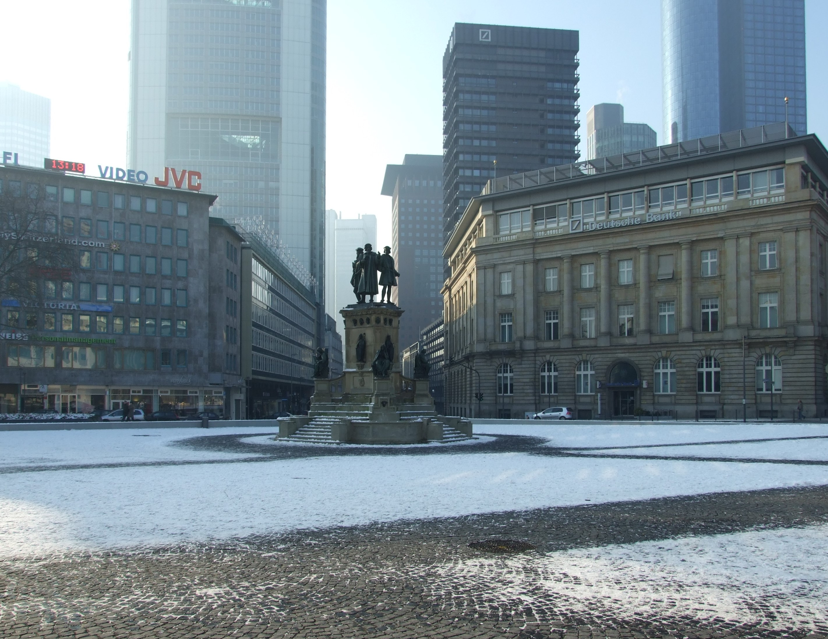 Rossmarkt in Frankfurt am Main, Germany